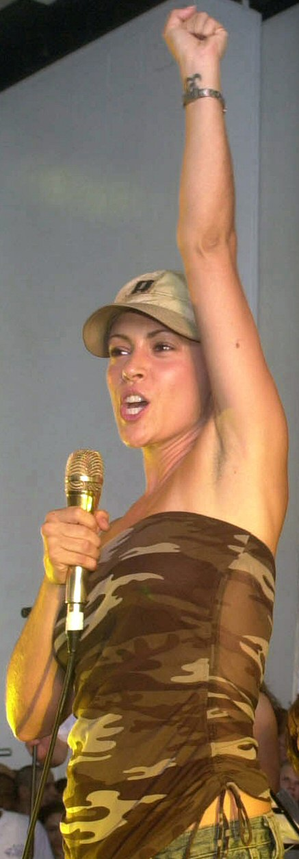 030619-N-7027P-001 The Arabian Gulf (Jun. 19, 2003) -- Actress Alyssa Milano speaks to crewmembers during a visit aboard USS Nimitz (CVN 68) for a United Services Organization (USO) show. Nimitz Carrier Strike Group and Carrier Air Wing Eleven (CVW-11) are deployed in support of Operation Iraqi Freedom. Operation Iraqi Freedom is the multi-national coalition effort to liberate the Iraqi people, eliminate Iraq’s weapons of mass destruction, and end the regime of Saddam Hussein. U.S. Navy photo by Photographer’s Mate 3rd Class Sandra Palumbo. (RELEASED) Note that this image has been cropped to focus on Milano. The full version can be found at Image:Alyssa Milano Navy.jpg.